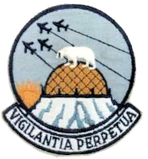 Emblem of the 924th Radar Squadron